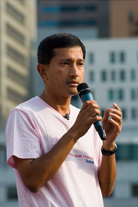 Dr. Vivian Balakrishnan (born 25 January 1961), Member of Parliament for the Holland–Bukit Timah Group Representation Constituency (GRC), known as the Holland–Bukit Panjang GRC when Balakrishnan was first elected to Parliament in the 2001 general election, speaking at a Pink Ribbon Walk event in Singapore. As of April 2009 he is the Minister for Community Development, Youth and Sports.